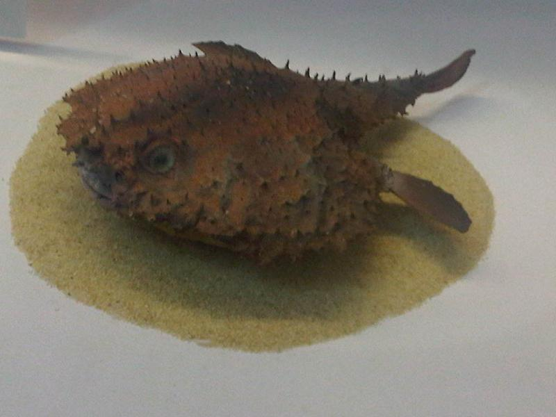 Halieutaea stellata at the Natural History Museum in London, England.